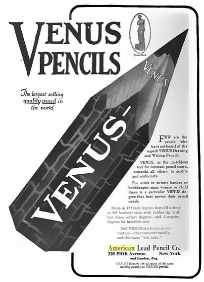 Venus Pencils, manufactured by the American Lead Pencil Company